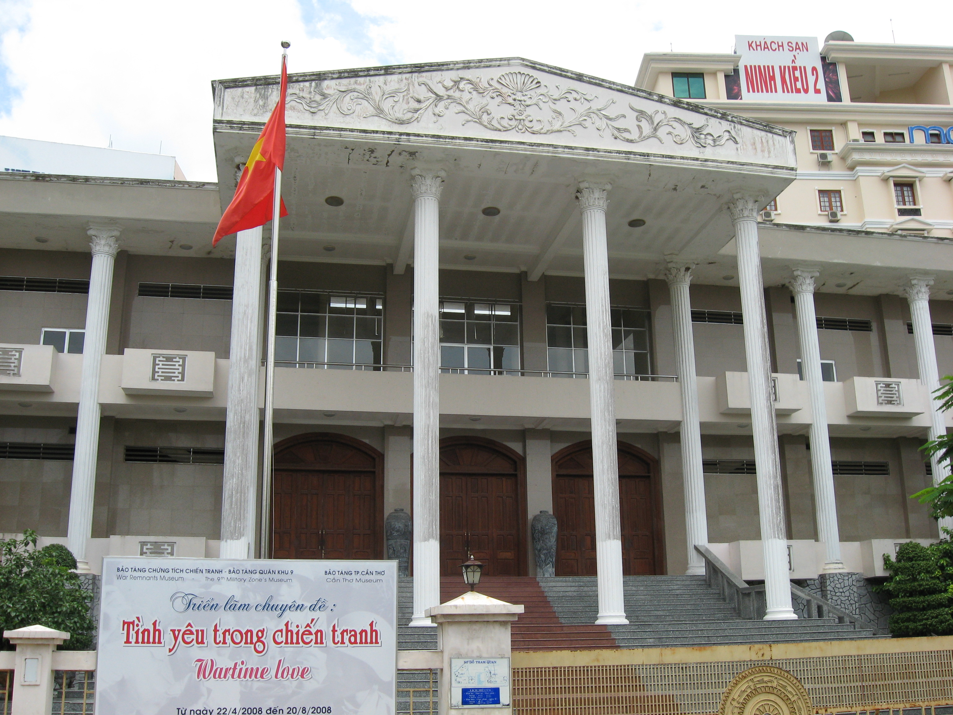 Can Tho Museum